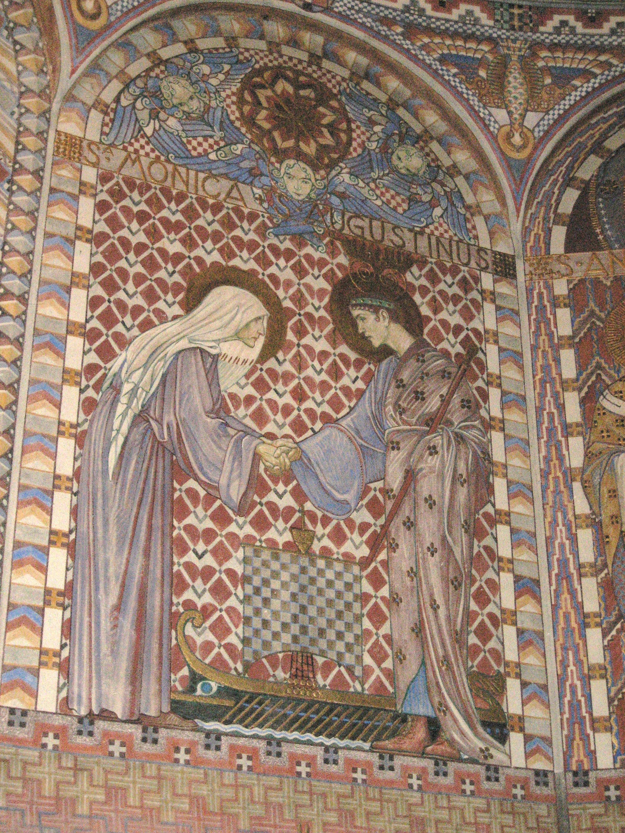 Uppenbarelsekyrkan, Saltsjöbaden, Stockholm County, Sweden. Sanctuary. Painting of Saint Monica and Saint Augustine by Olle Hjortzberg.